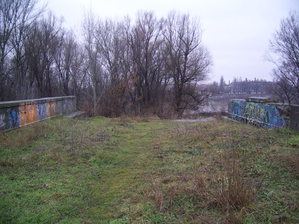 Remains of the Szeged Railway Brigde (1858-1944), Szeged, Hungary